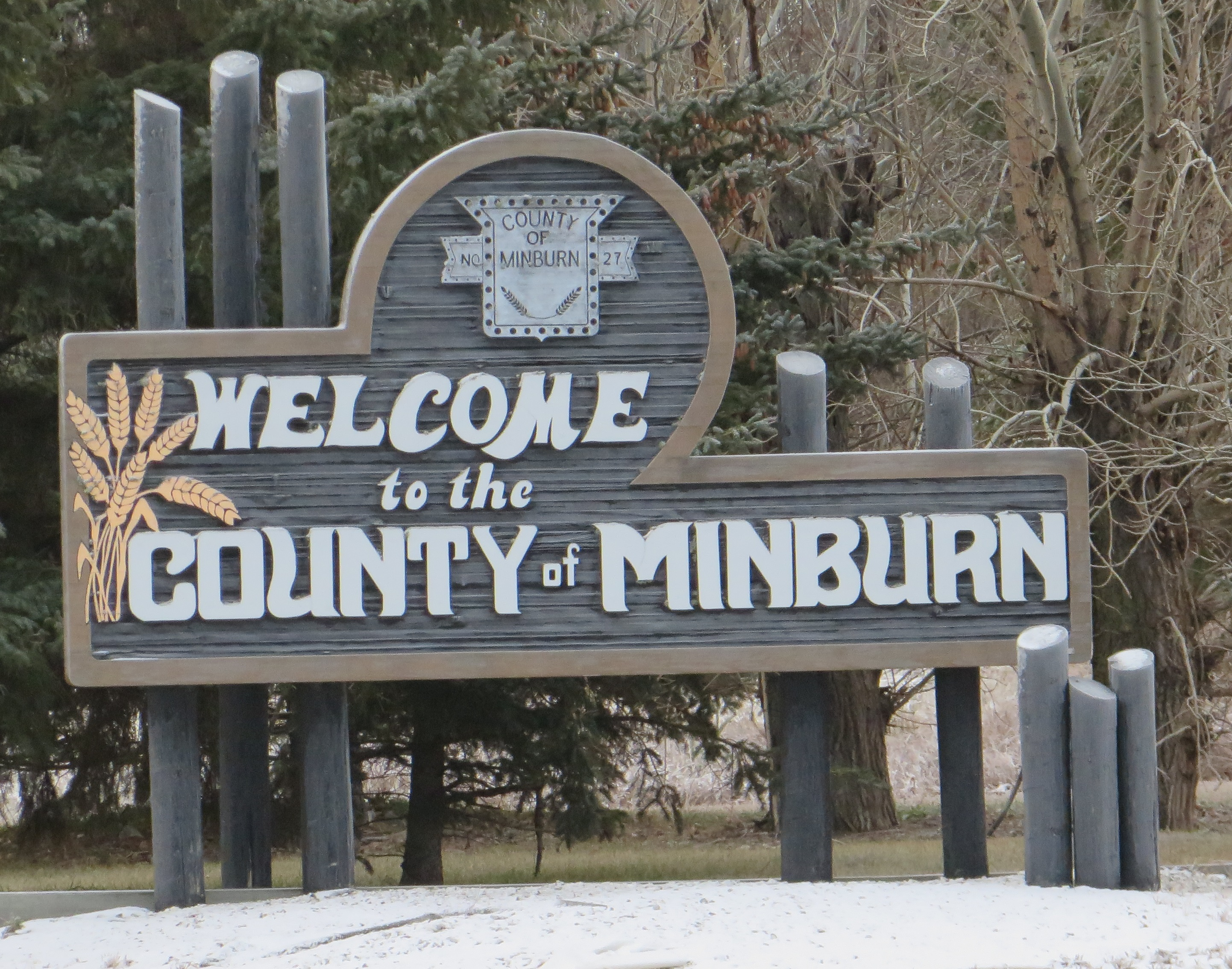 A sign welcoming motorists to Minburn County, Alberta, Canada.